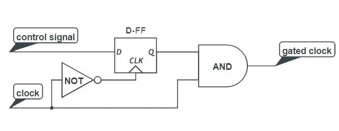 Clock gate circle